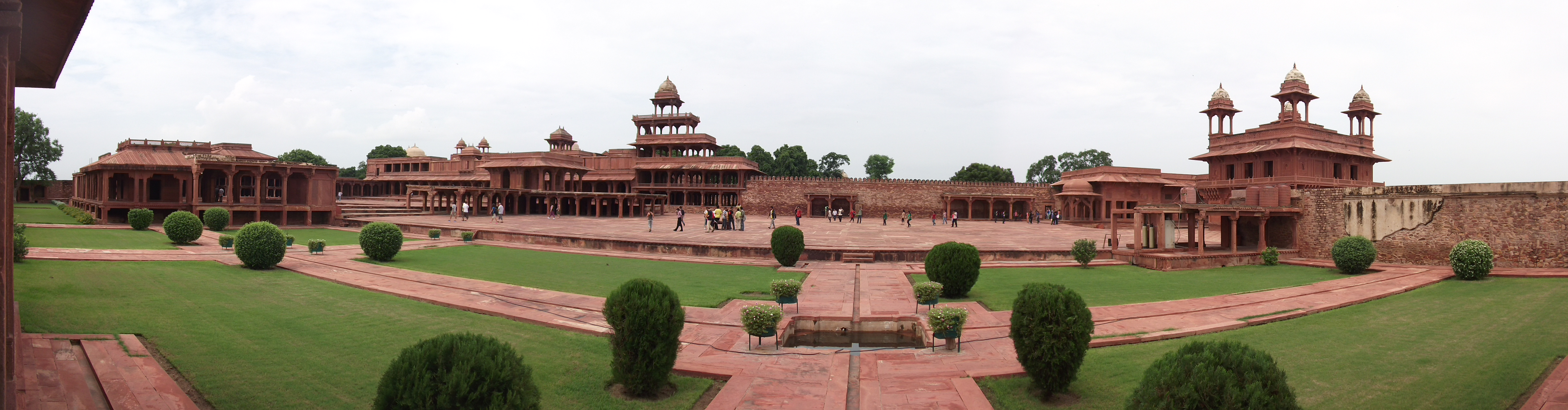 The magnificient palace built by Akbar on the mountains of Sikri, and named it as Fatehpur Sikri.